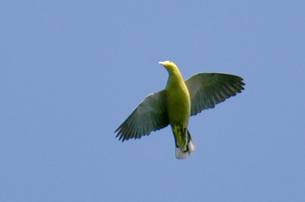 Andaman Green-Pigeon (Treron chloropterus) in flight, North Andaman Island, India